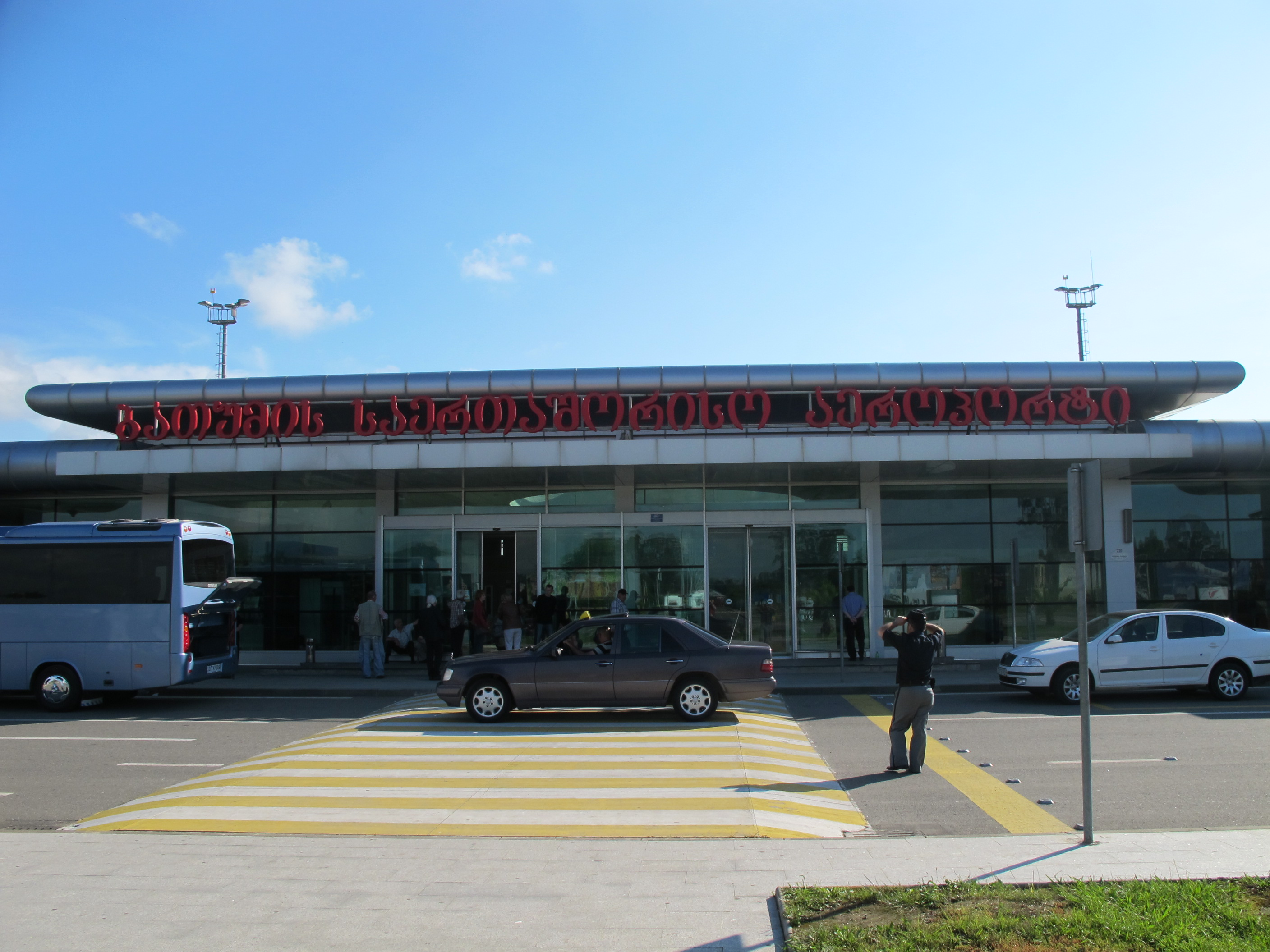 The entrance to Batumi International Airport